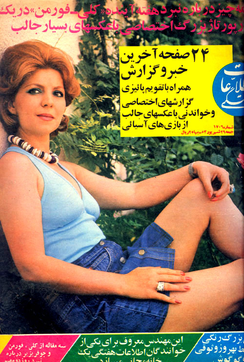 This photo of "Forouzan" was printed on the cover of «Weekly Ettelaat» magazine, No.1706.